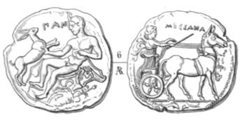 Table I from Sul tipo de’ tetradrammi di Segesta Coin of Messana (nowdays Messina God Pan naked sitting; in left hand lagobolon in right a hare. Above ΠΑΝ (Pan). Chariot w. two mules, r., driven by female figure; above, ΜΕΣΣΑΝΑ (Messana), in exergue, two fishes.